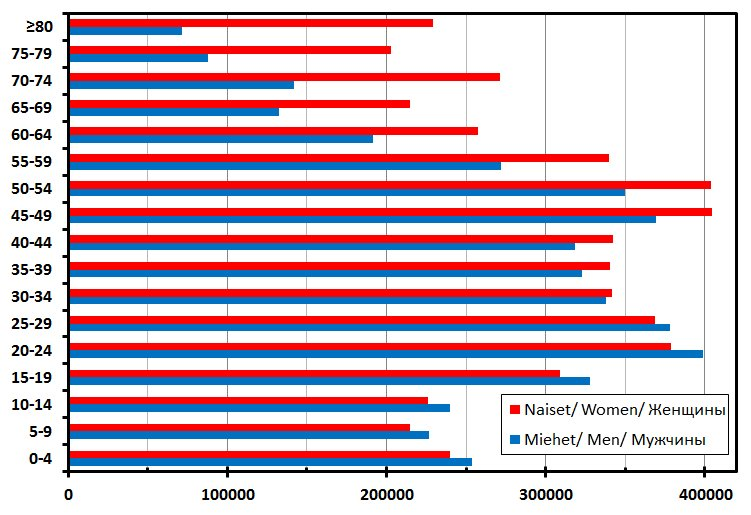 Pyramid of age (age-sex) for the of the Republic of Belarus, based on the Oct. 2009 population census. x-axis shows the amount of population and y-axis the age group (years). Data was picked from the National Statistical Committee of the Republic of Belarus public web-pages in Russian where page 8/28 of the rar-compressed pdf-file for the Republic of Belarus included the data for this graph. Colors used for the sex is in Finnish-English-Russian.